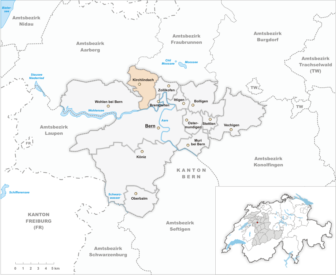 Municipality Kirchlindach